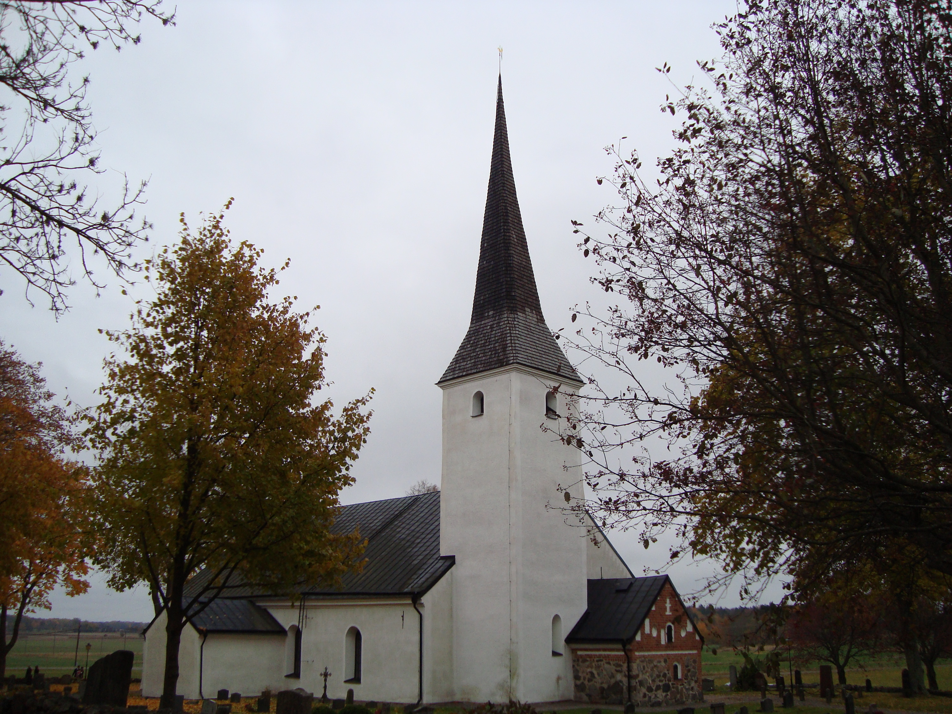 Aspö kyrka, diocese of Strängnäs, Sweden